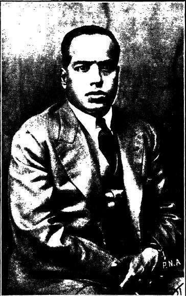 Portrait of Sir. P. T. Rajan. Taken from en wiki